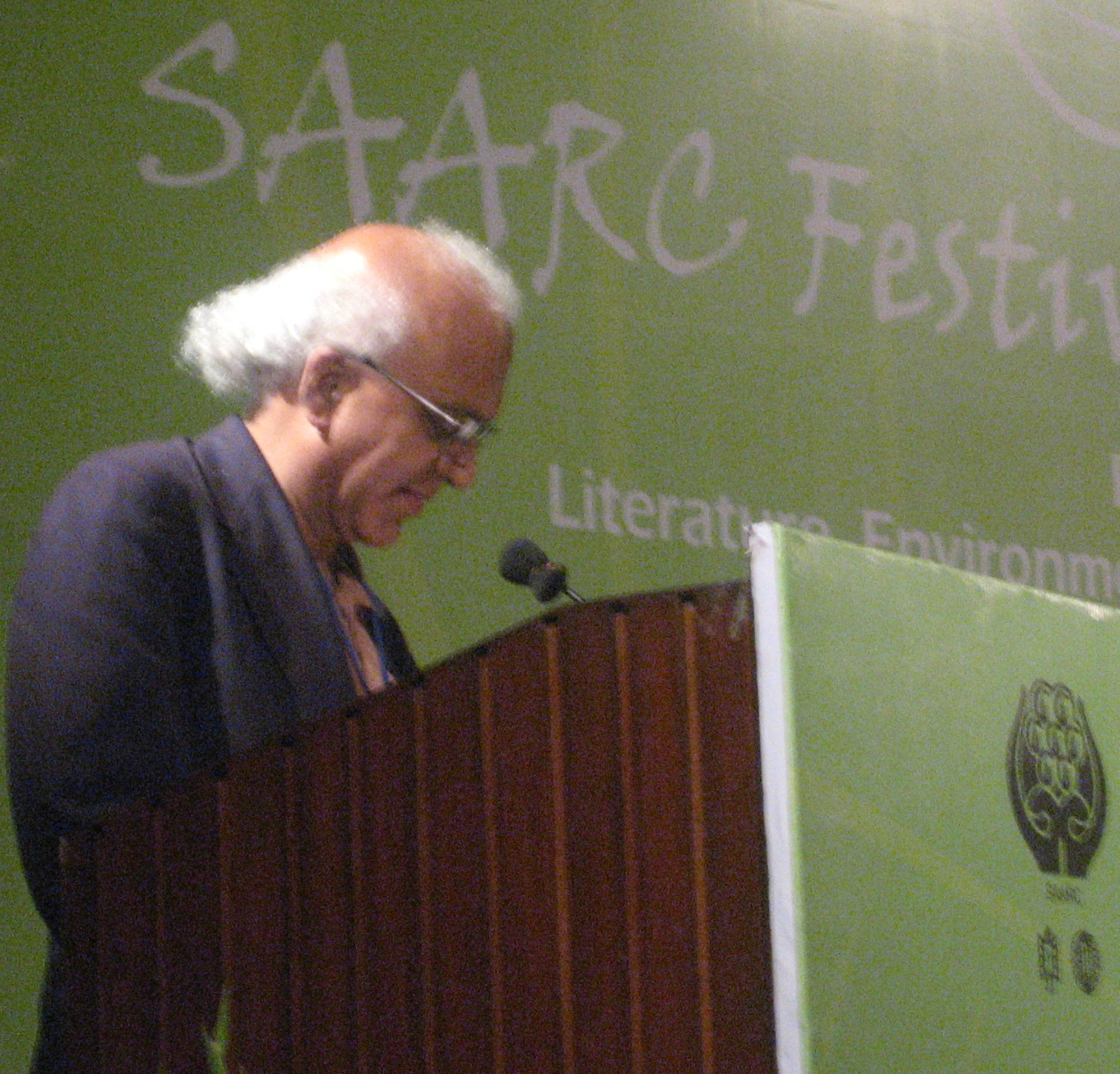 Abhi Subedi delivering speech